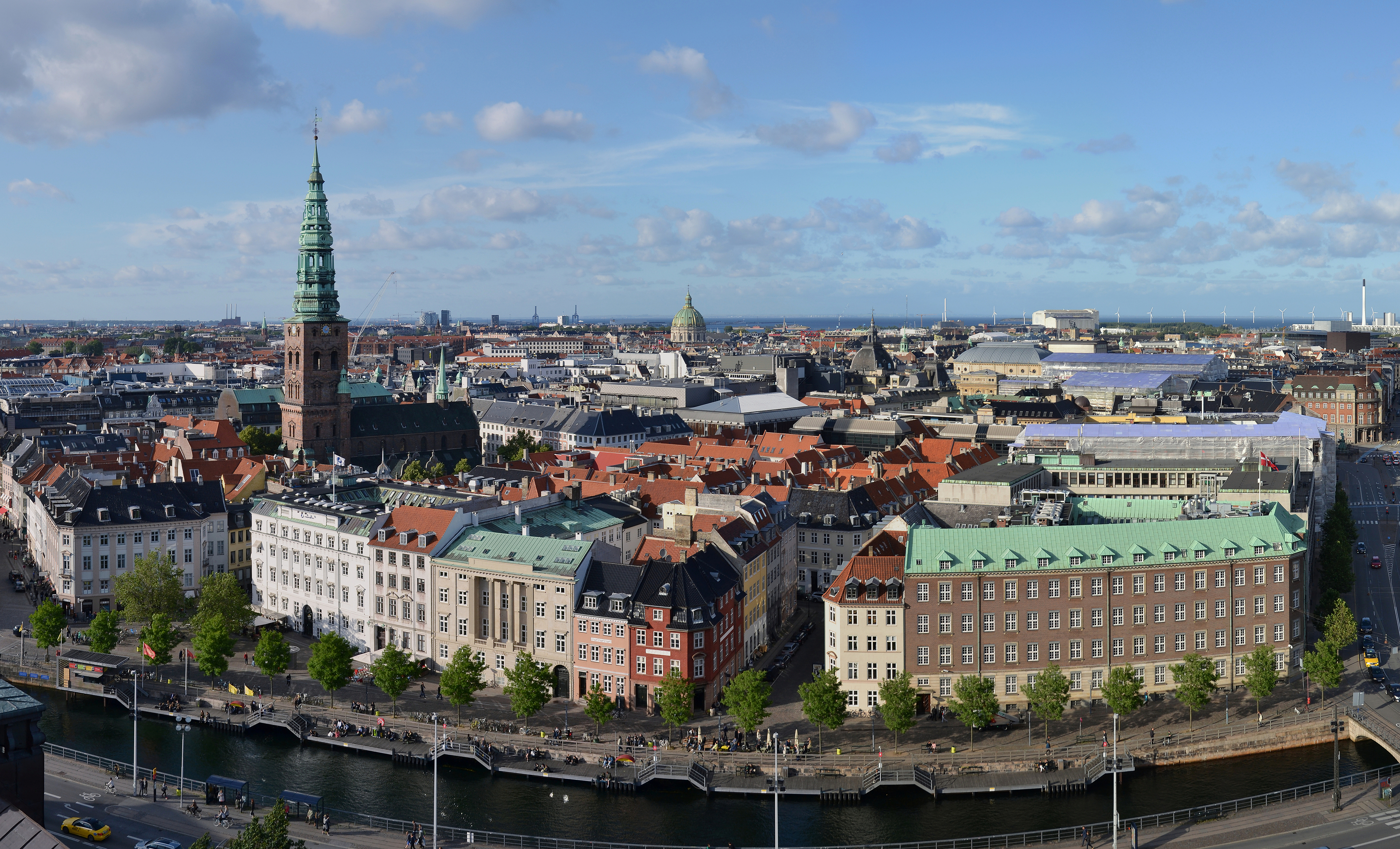 Copenhagen - view from castle Christiansborg